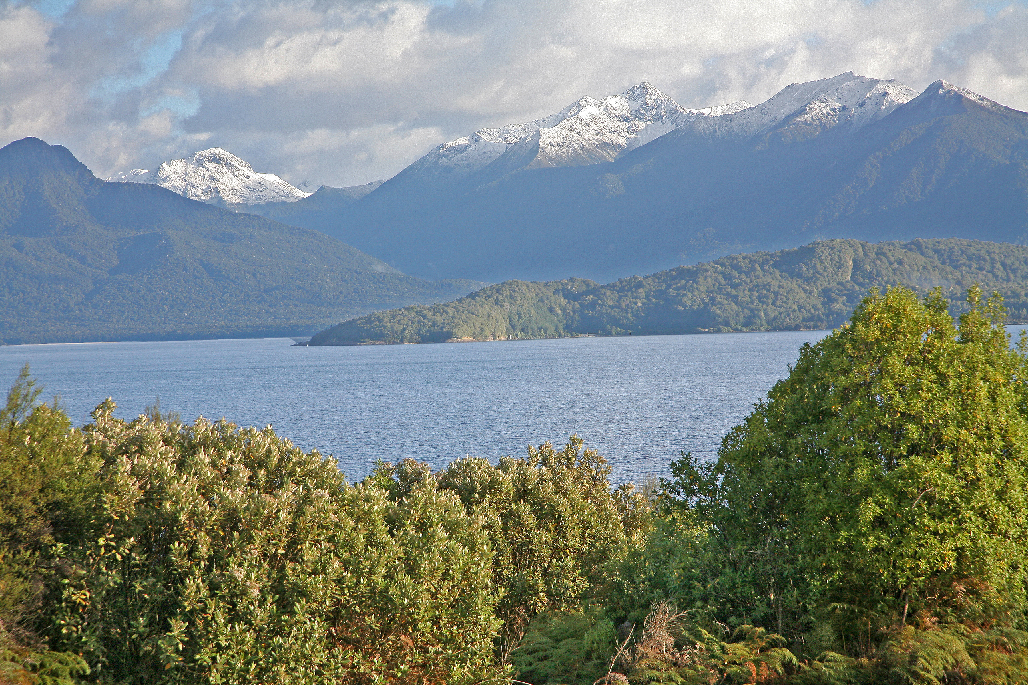 New Zealand: Lake Te Anau in the Fiordland National Park is the largest lake in the South Island with a size of 344 square kilometers.